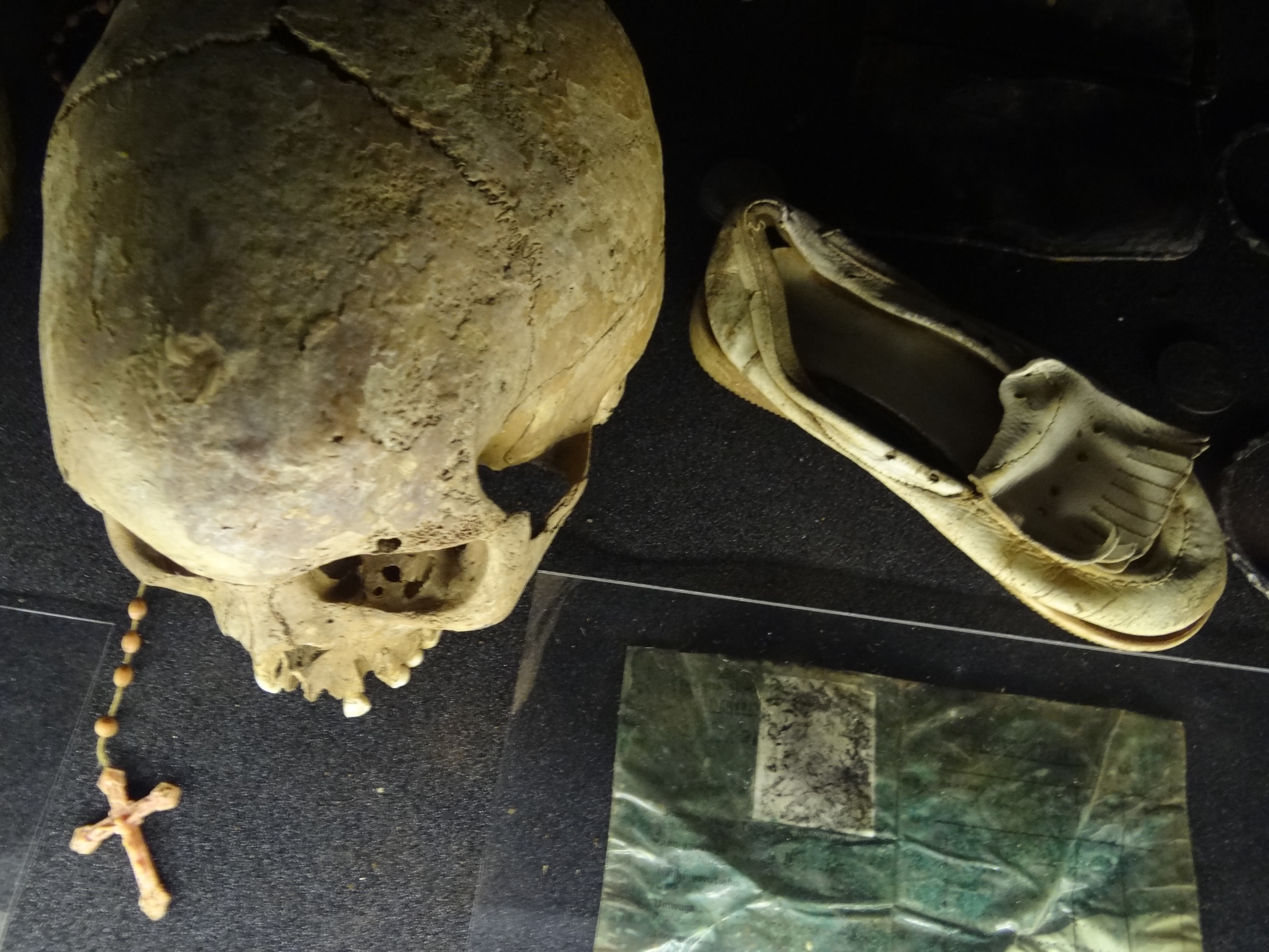 Skull and Belongings of Genocide Victims - Genocide Memorial Center, Kigali, Rwanda